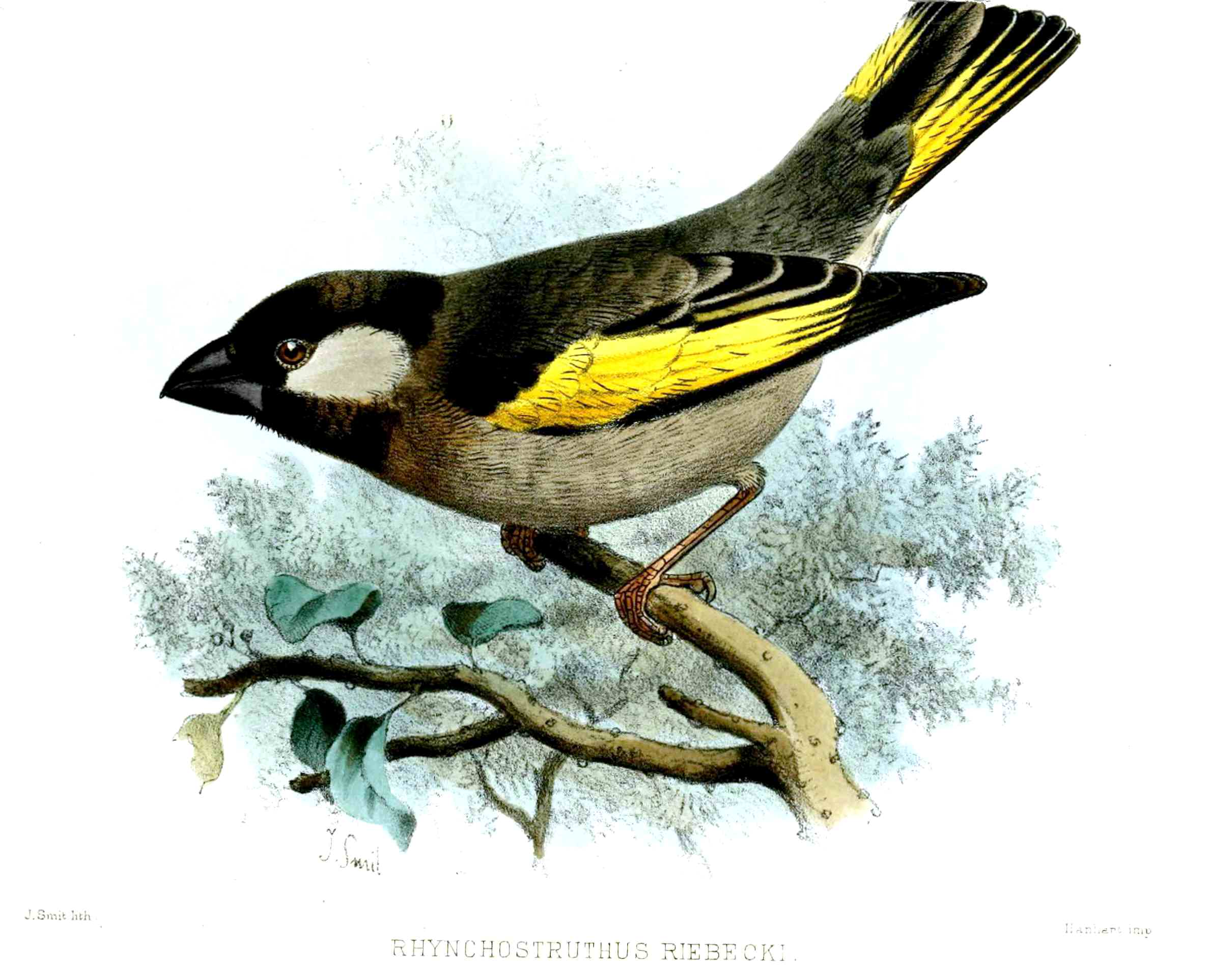 Rhynchostruthus riebecki = Rhynchostruthus socotranus socotranus[1]